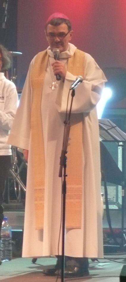 The bishop Denis Moutel of Saint-Brieuc at Ecclesia Campus 2012 in Rennes (Ille-et-Vilaine, Bretagne, France).